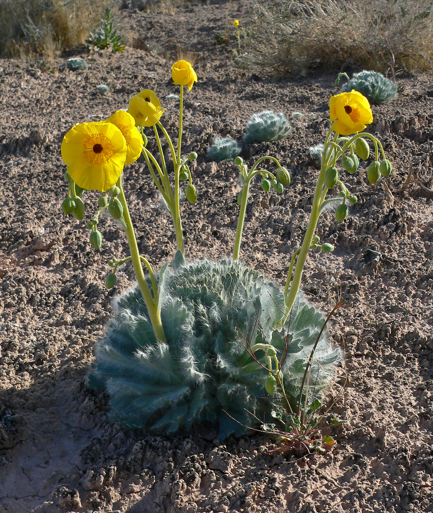 Arctomecon californica off Northshore Drive near Valley of Fire junction, Lake Mead National Recreation Area, southern Nevada